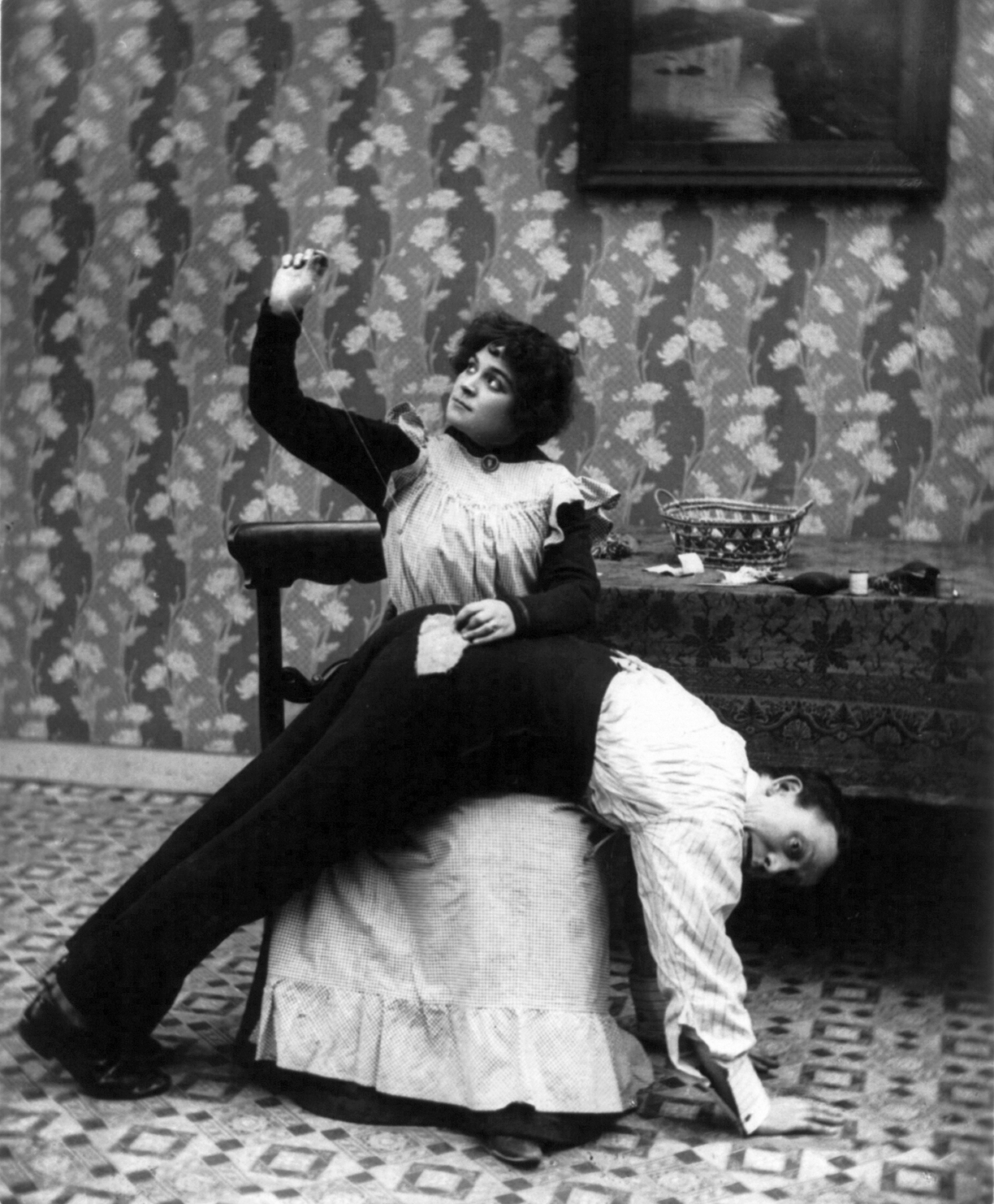 "A stitch in time saves nine". Man leaning over lap of woman as she sews patch on his pants' seat.